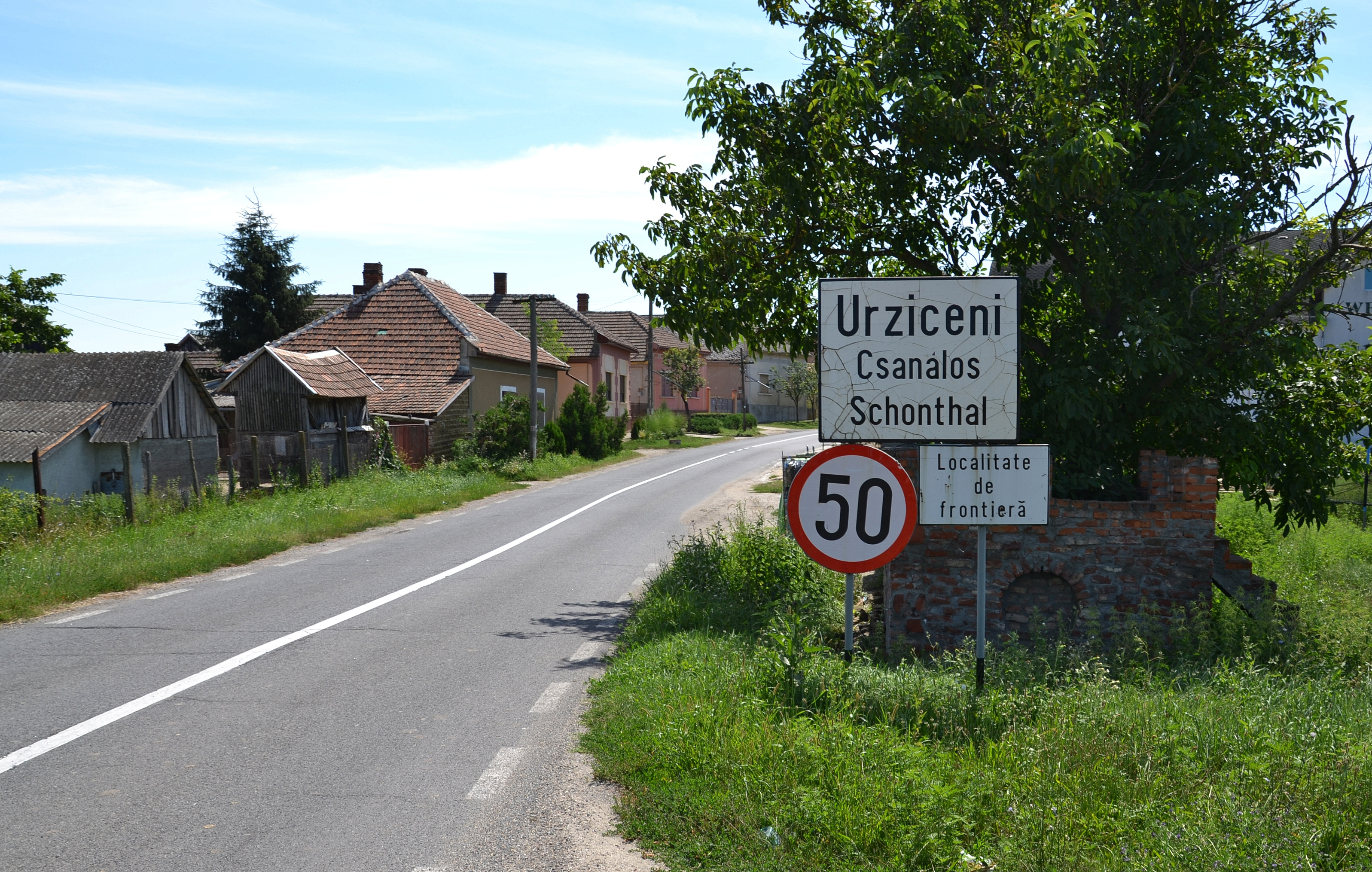 Urziceni (Csanálos, Schontal), Romania - trilingual city limit sign